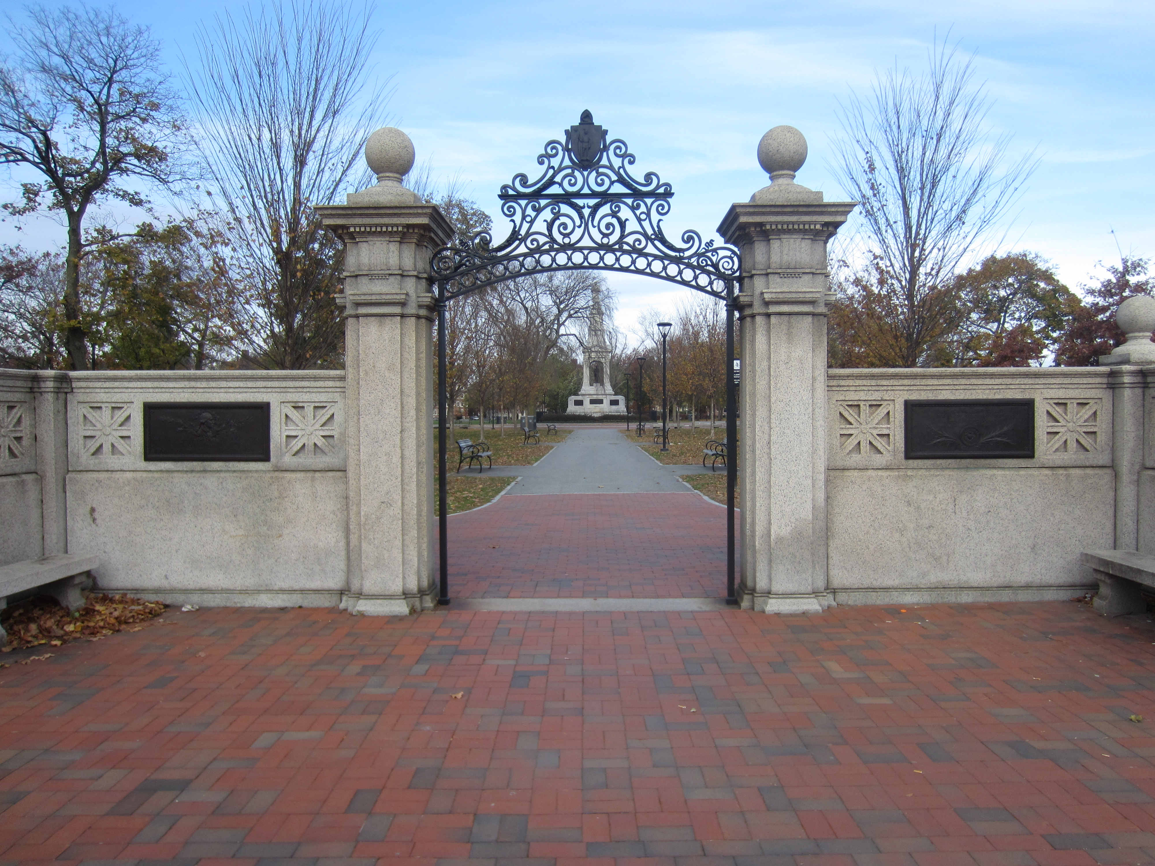 Cambridge, Massachusetts (2019)